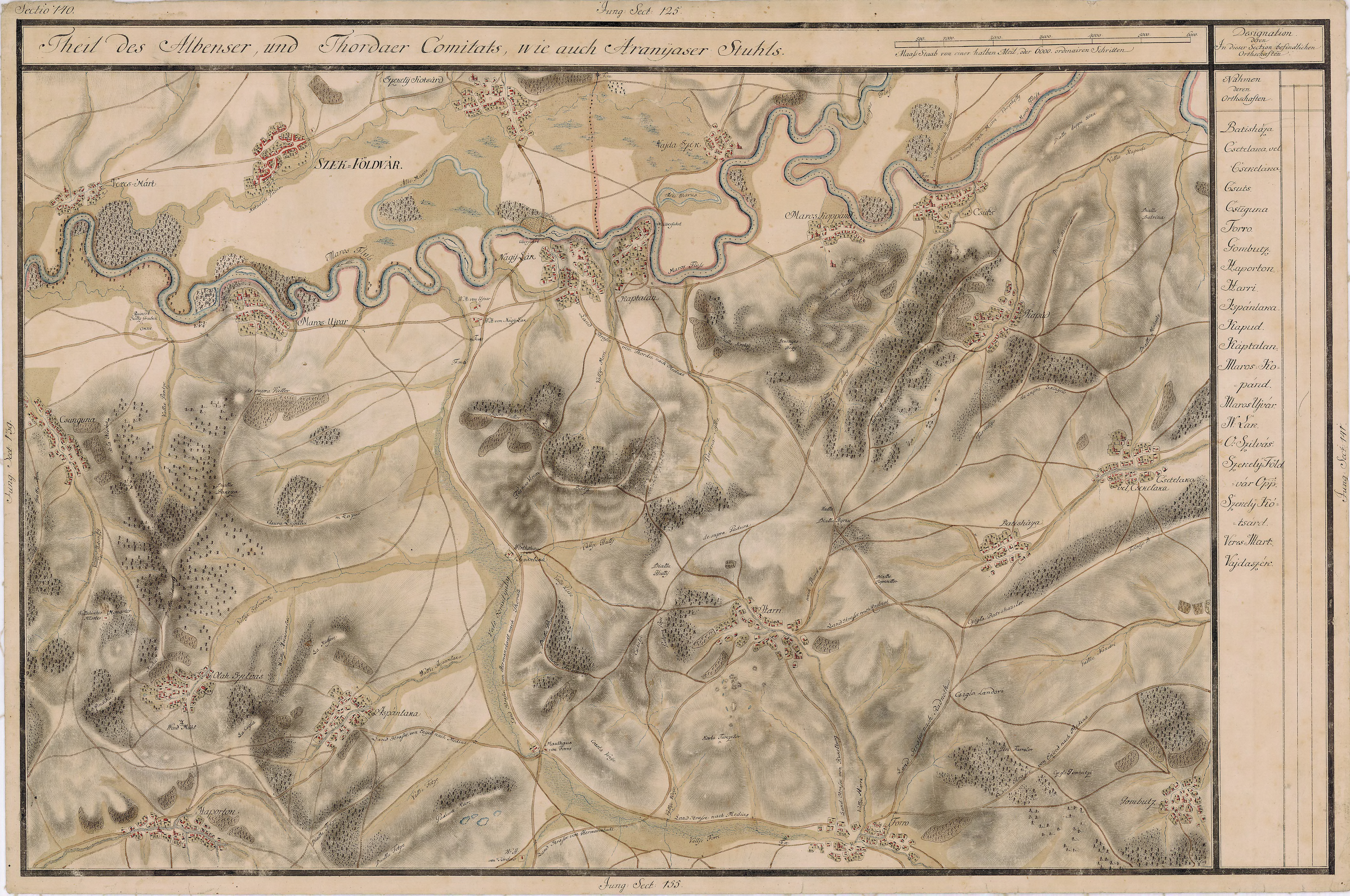 Grand Duchy of Transylvania, 1769-1773. Josephinische Landaufnahme pg.140